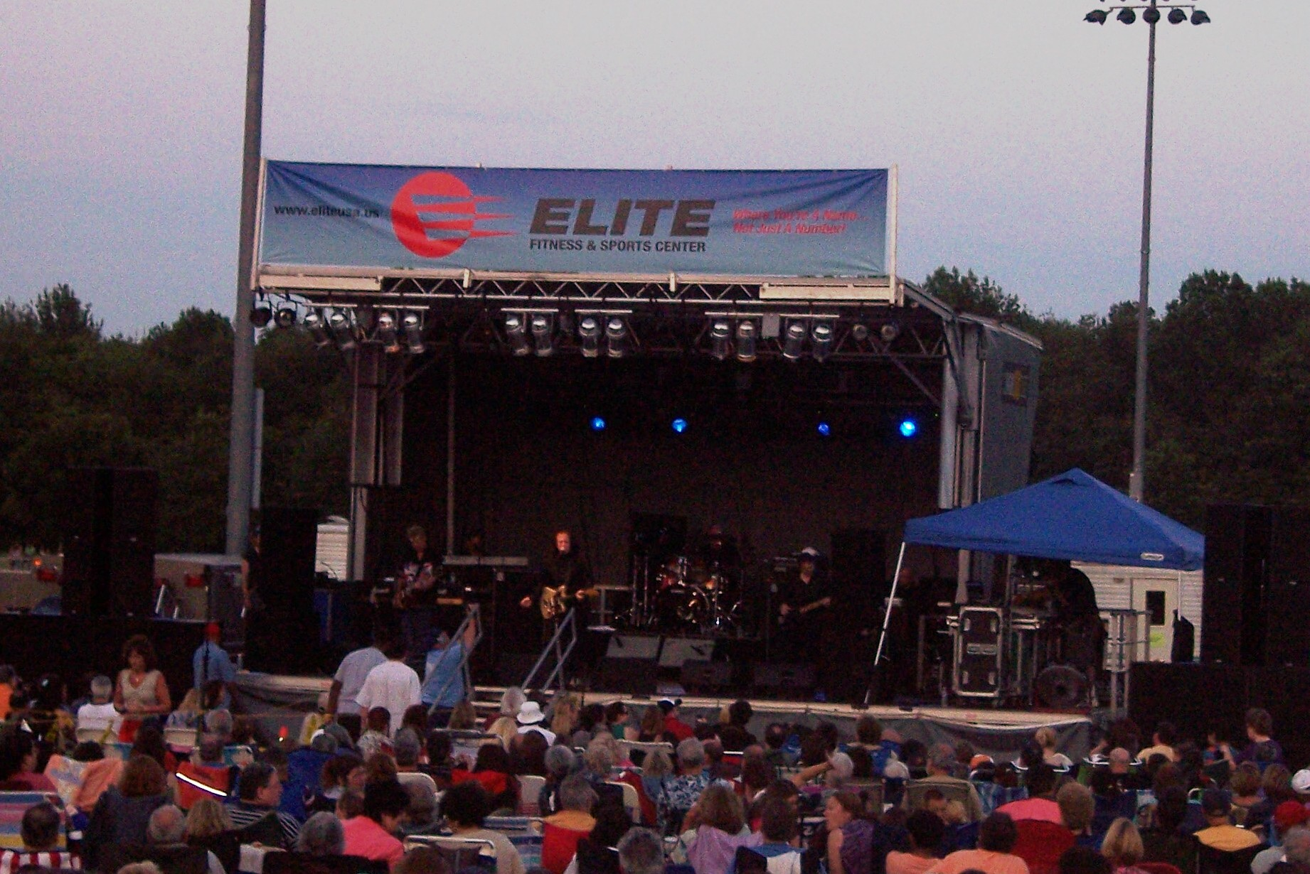 Tommy James and the Shondells performing "Crystal Blue Persuasion" during the Manalapan Under the Stars event in Manalapan, New Jersey.